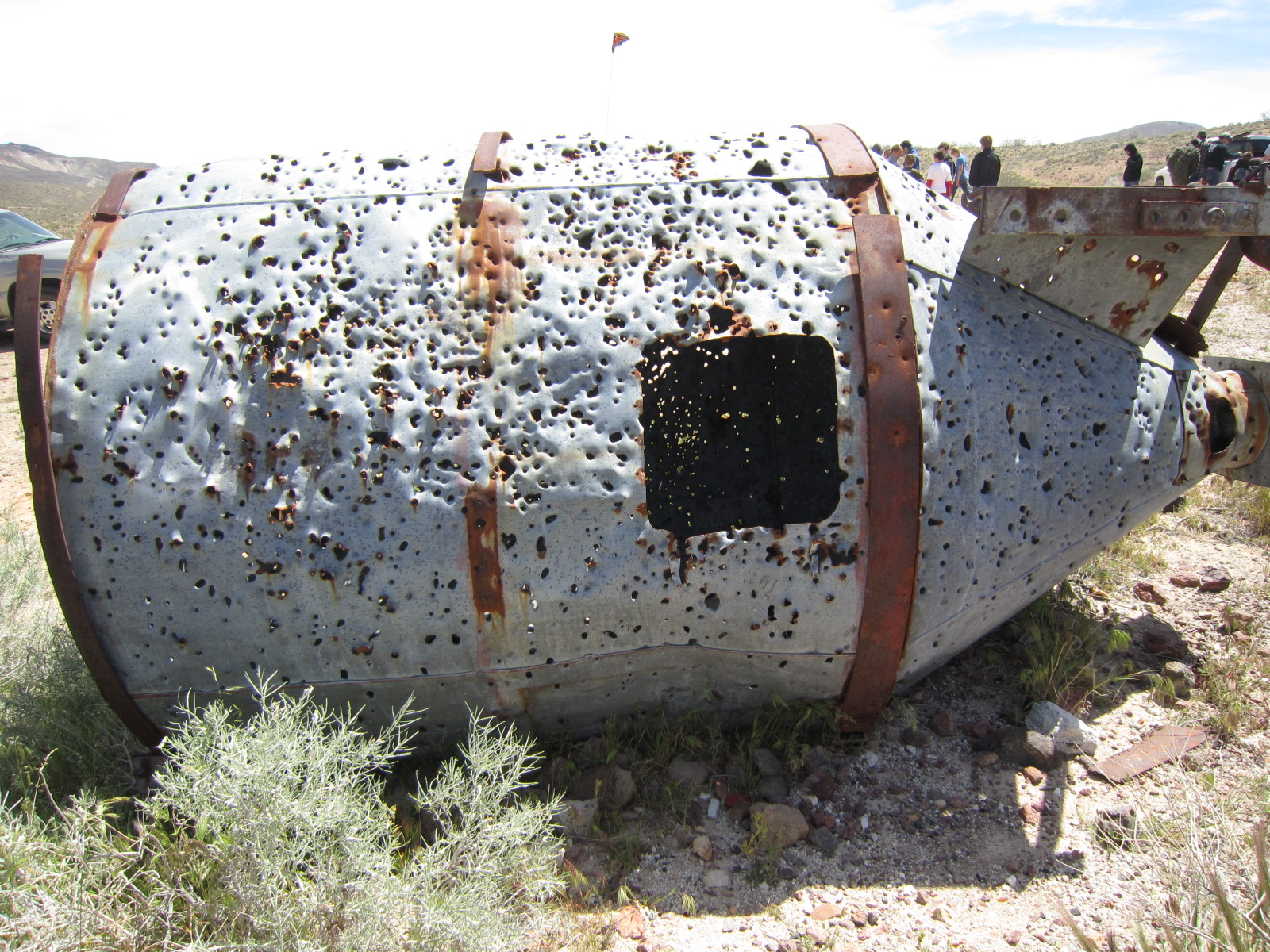 mojave desrt plinking